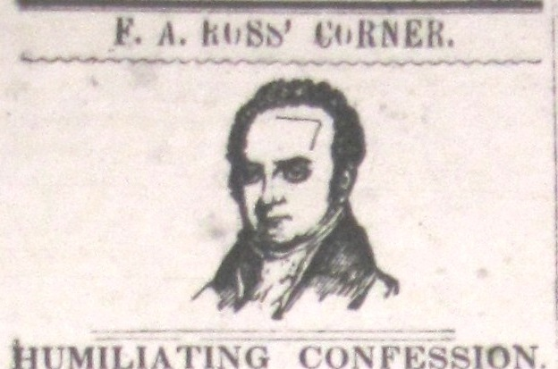 The heading for "F.A. Ross' Corner" in the Jonesborough Whig. The editor of the Whig, William G. Brownlow, was a Methodist, and used this column to defend Methodism against attacks by F.A. Ross, a Presbyterian clergyman.